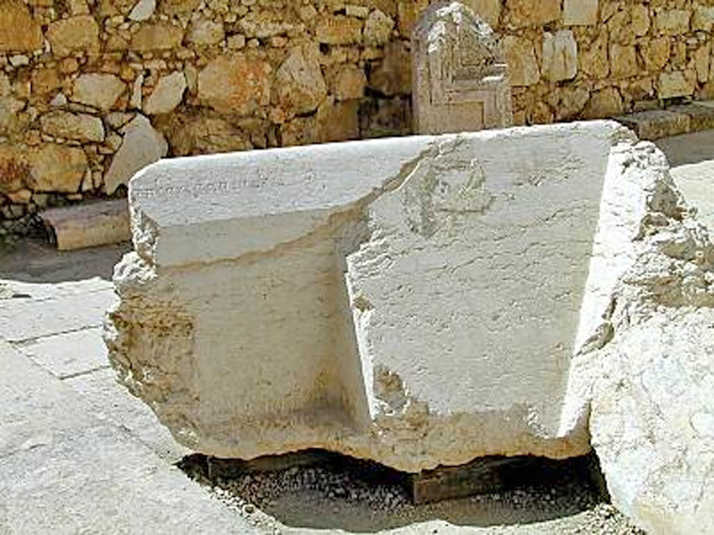 to the trumpeting place